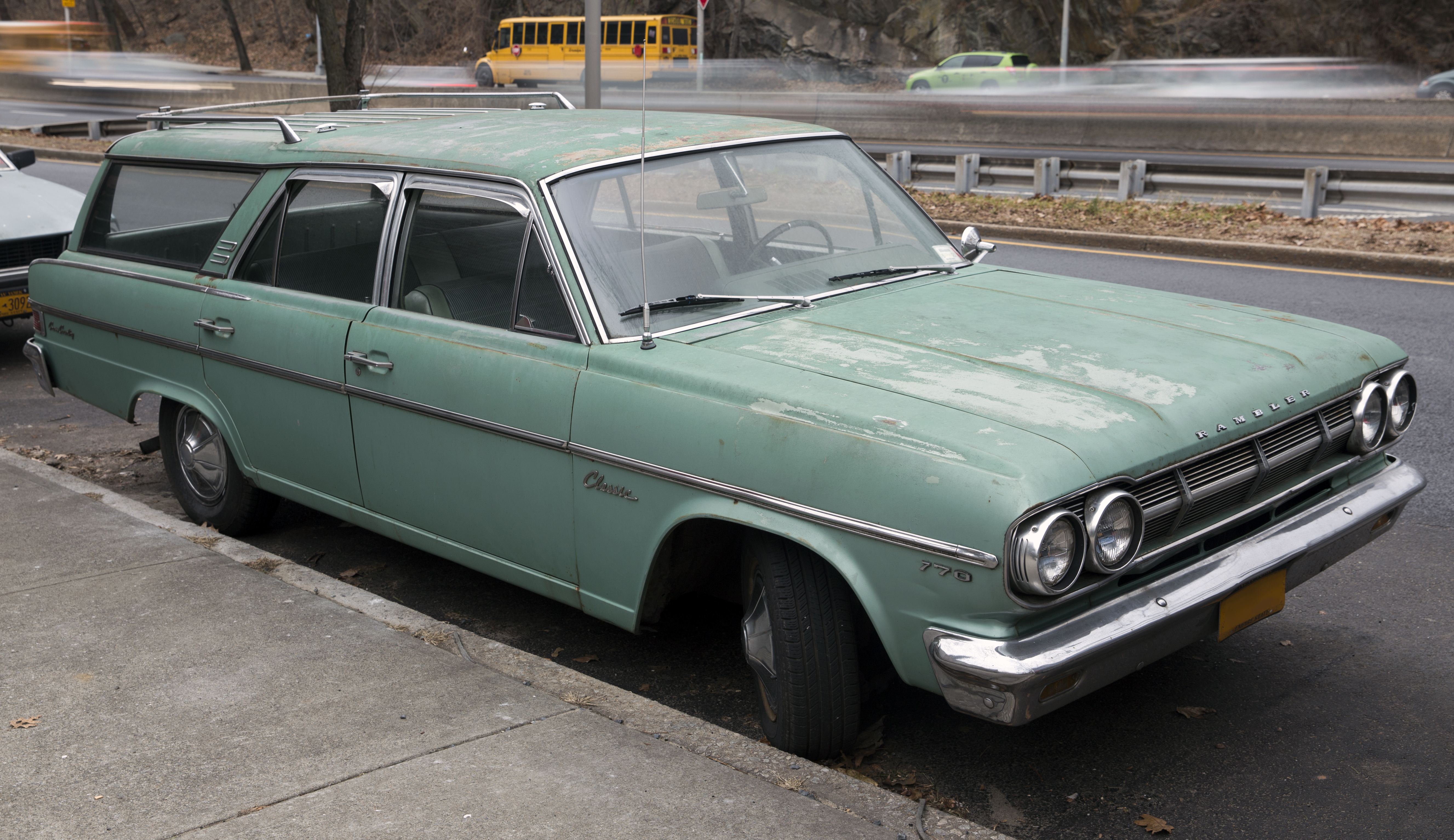 A 1965 Rambler Classic 770 Cross Country with the 232ci inline-six.